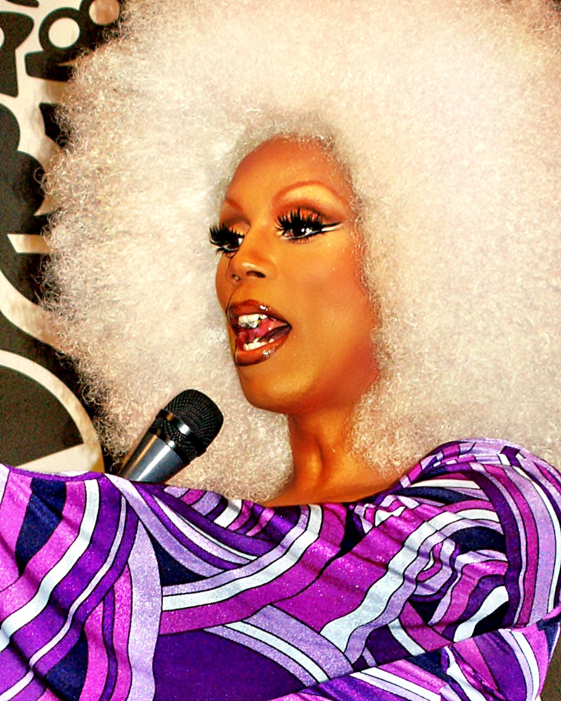 RuPaul at a party for the launch of her Starrbooty DVD.